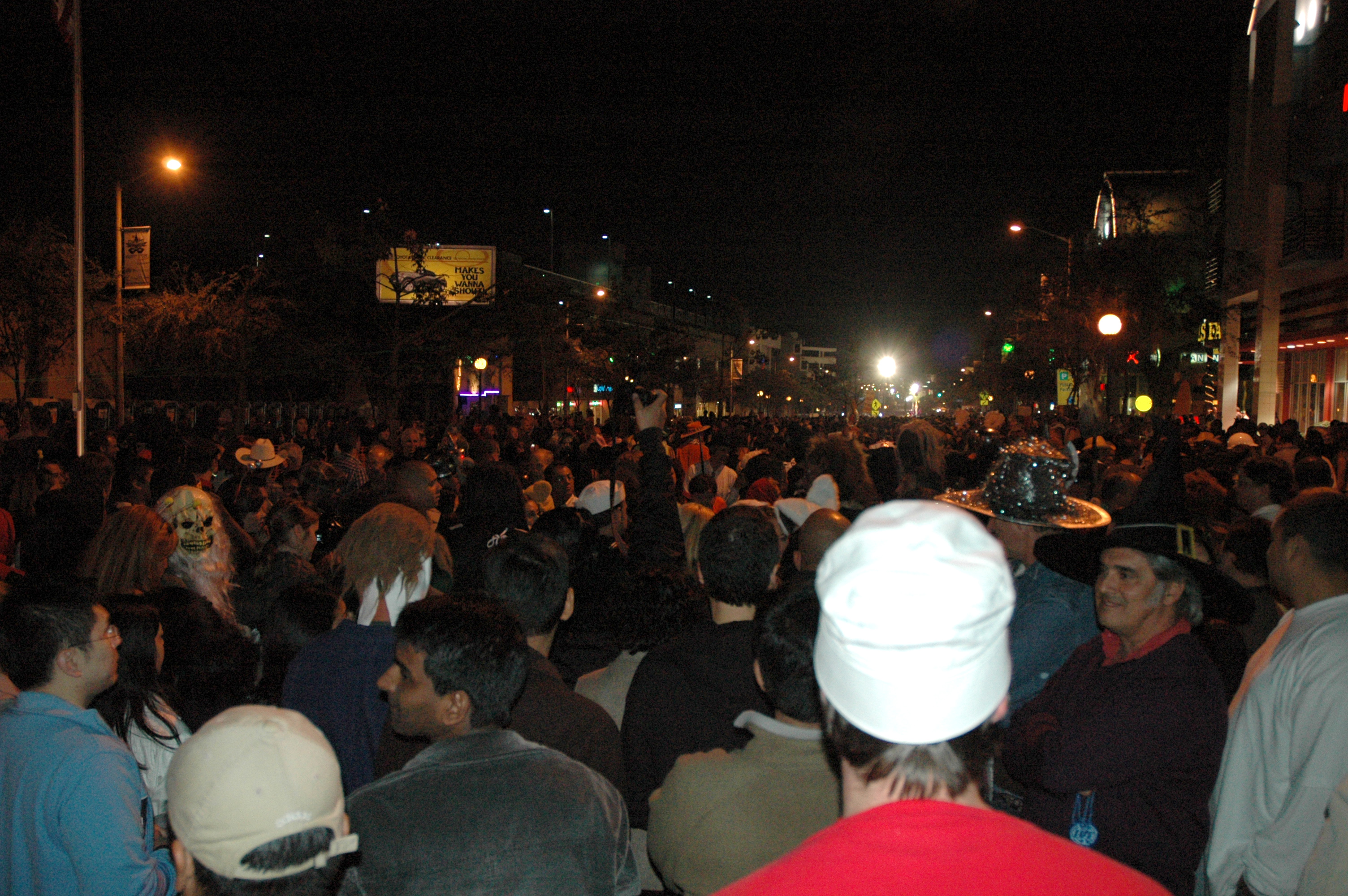 Throng at the entrance to the 2006 Halloween Carnival in West Hollywood, California, in the United States.